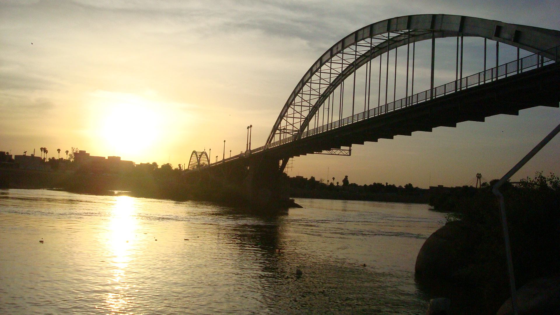 A view of White bridge and Karon River